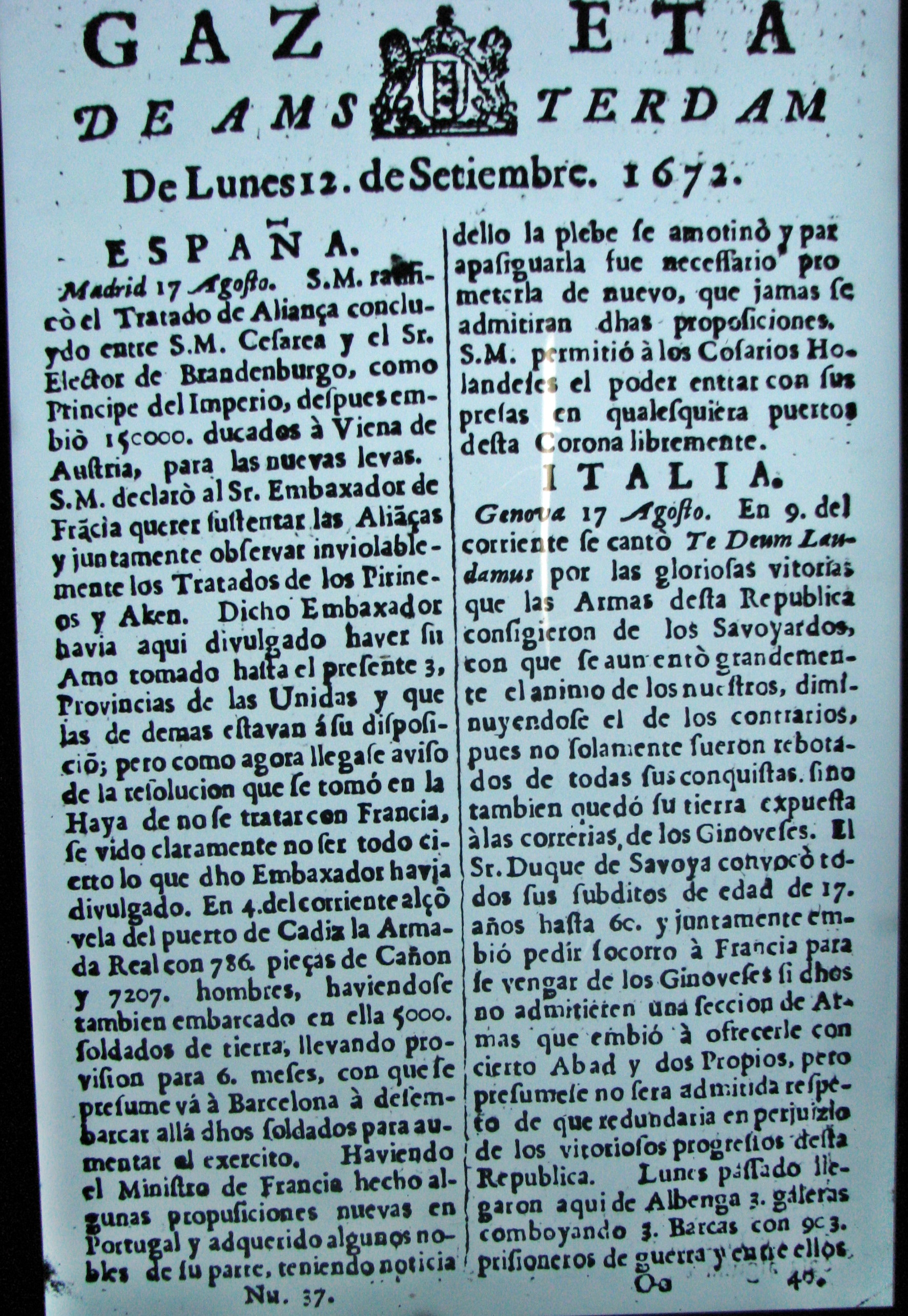 Front page of the Castilian Spanish jewish newspaper Gazeta de Amsterdam published in 1672. This is a photo of an exhibit at the Diaspora Museum, Tel Aviv - Beit Hatefutsot. (Photo was taken by User:Sodabottle)